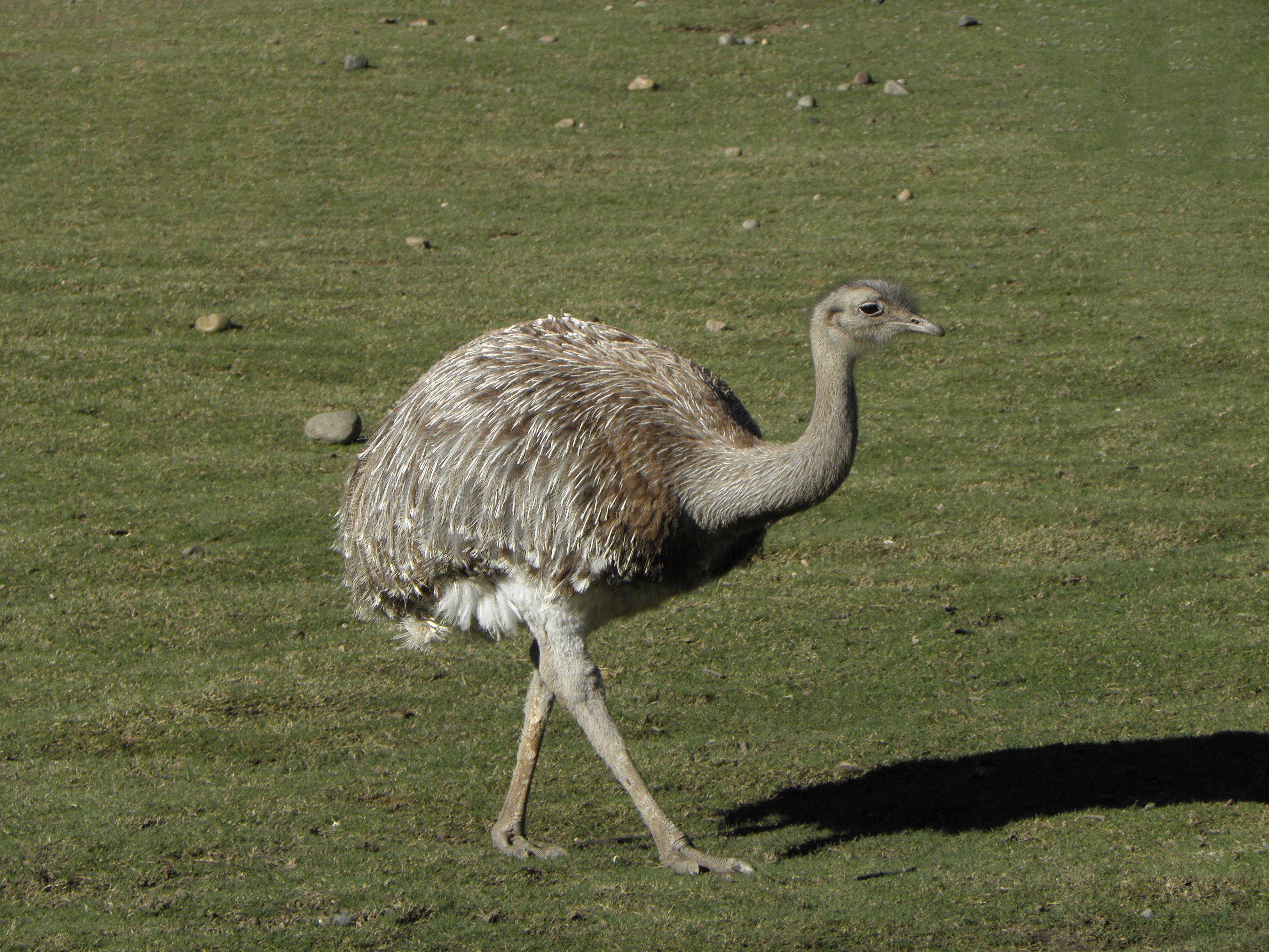 Patagonian Lesser Rhea